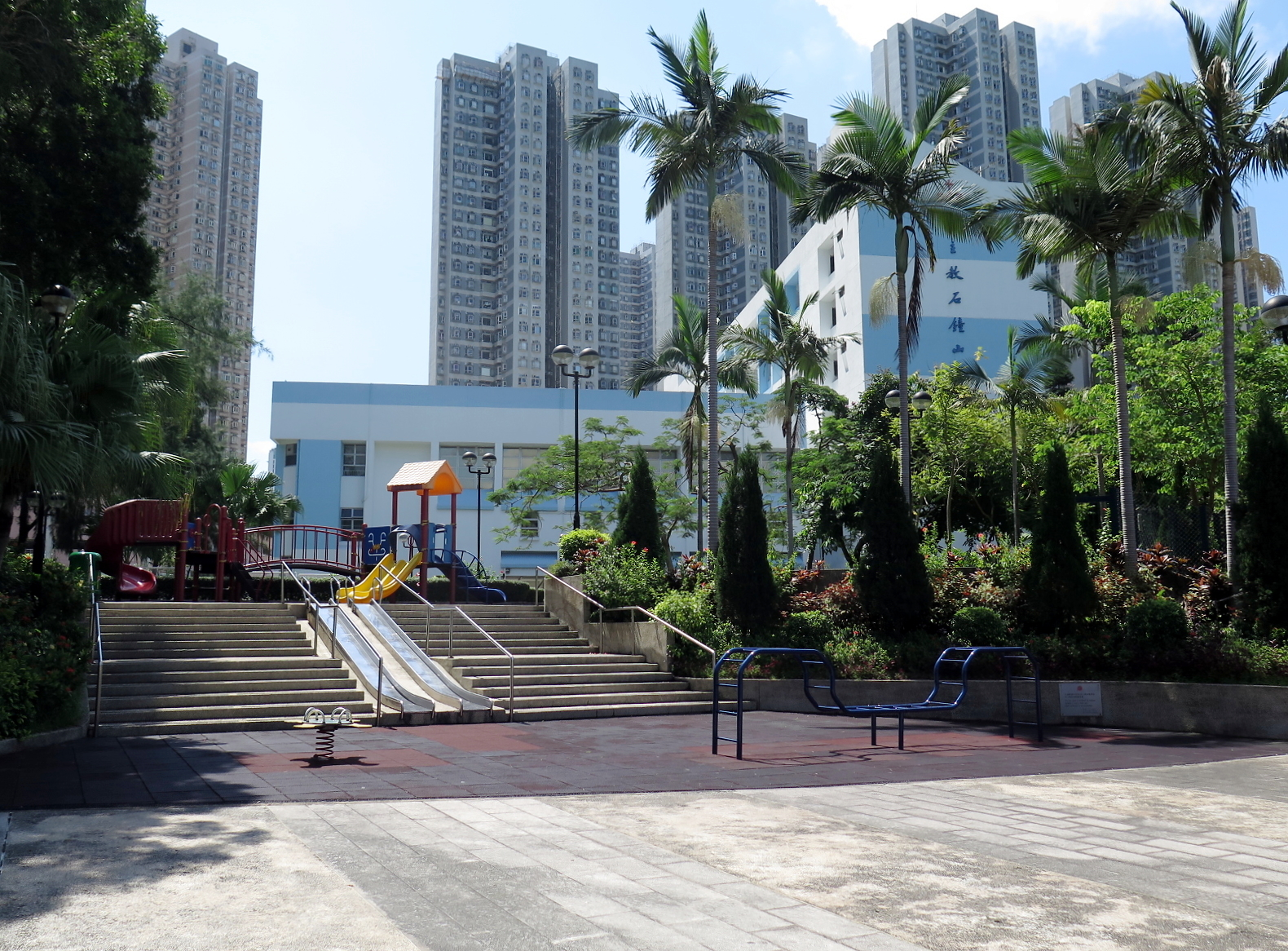 Tsuen Wan Riviera Park